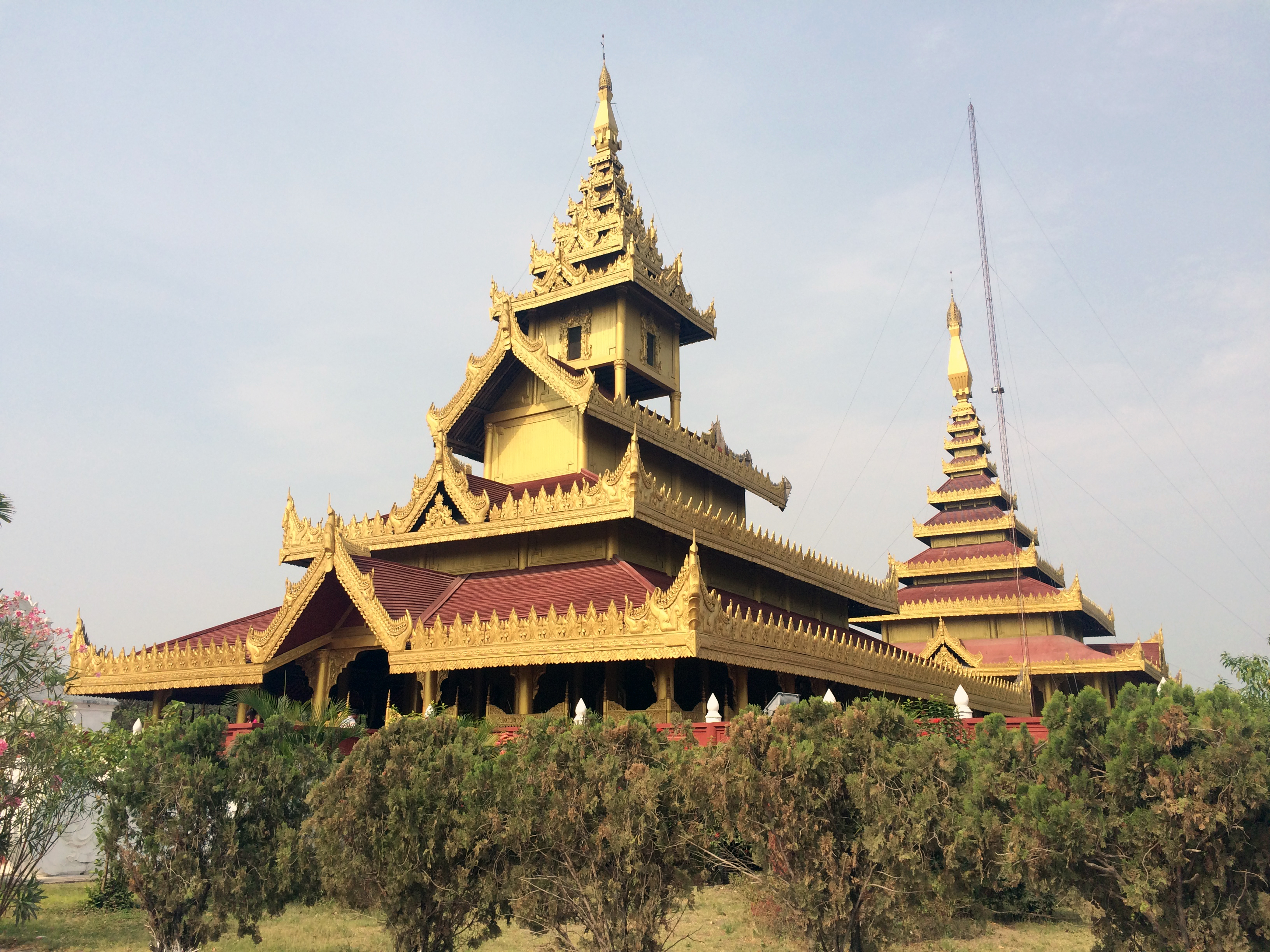 Shwebo Palace မြန်မာဘာသာ: ရွှေဘိုနန်းတော်